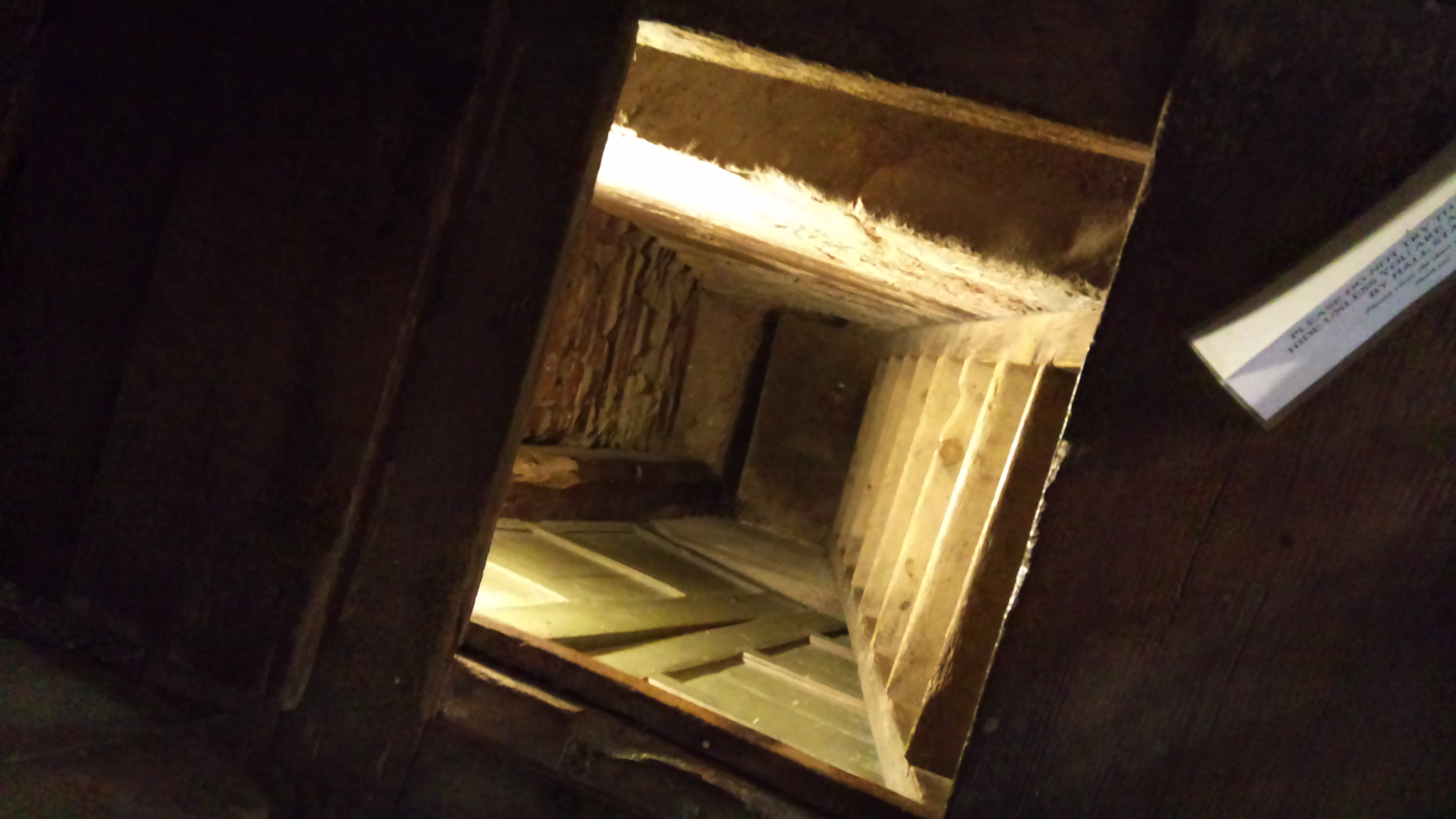 A "priest hole" (hiding) behind the panelling in a room called withdrawing room in 16th c. manor house, Harvington Hall, Worcestershire,UK.